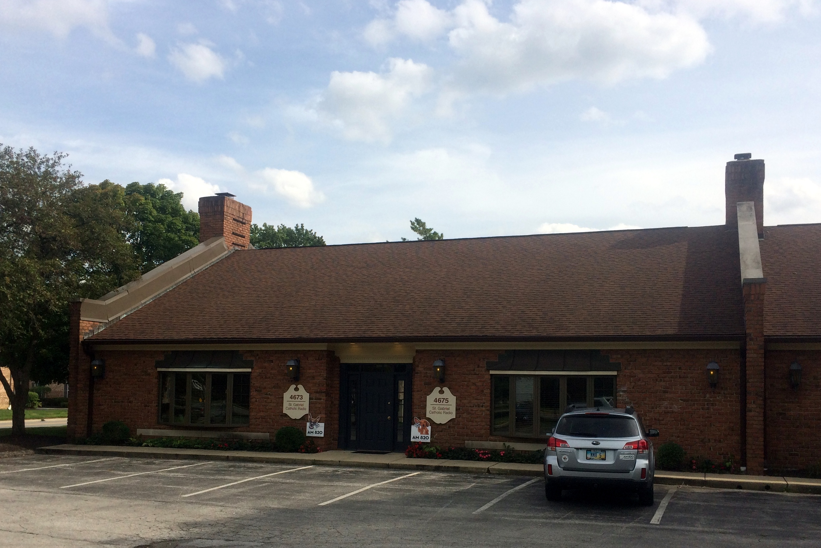 WVSG (AM) St. Gabriel Radio (Columbus, Ohio) - office and studio